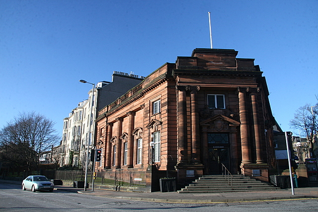 Blackness Library, Dundee. One of the Dundee branch libraries funded by Carnegie. Designed by James Thomson. Other Carnegie funded branch libraries in Dundee are 9110 and 488105